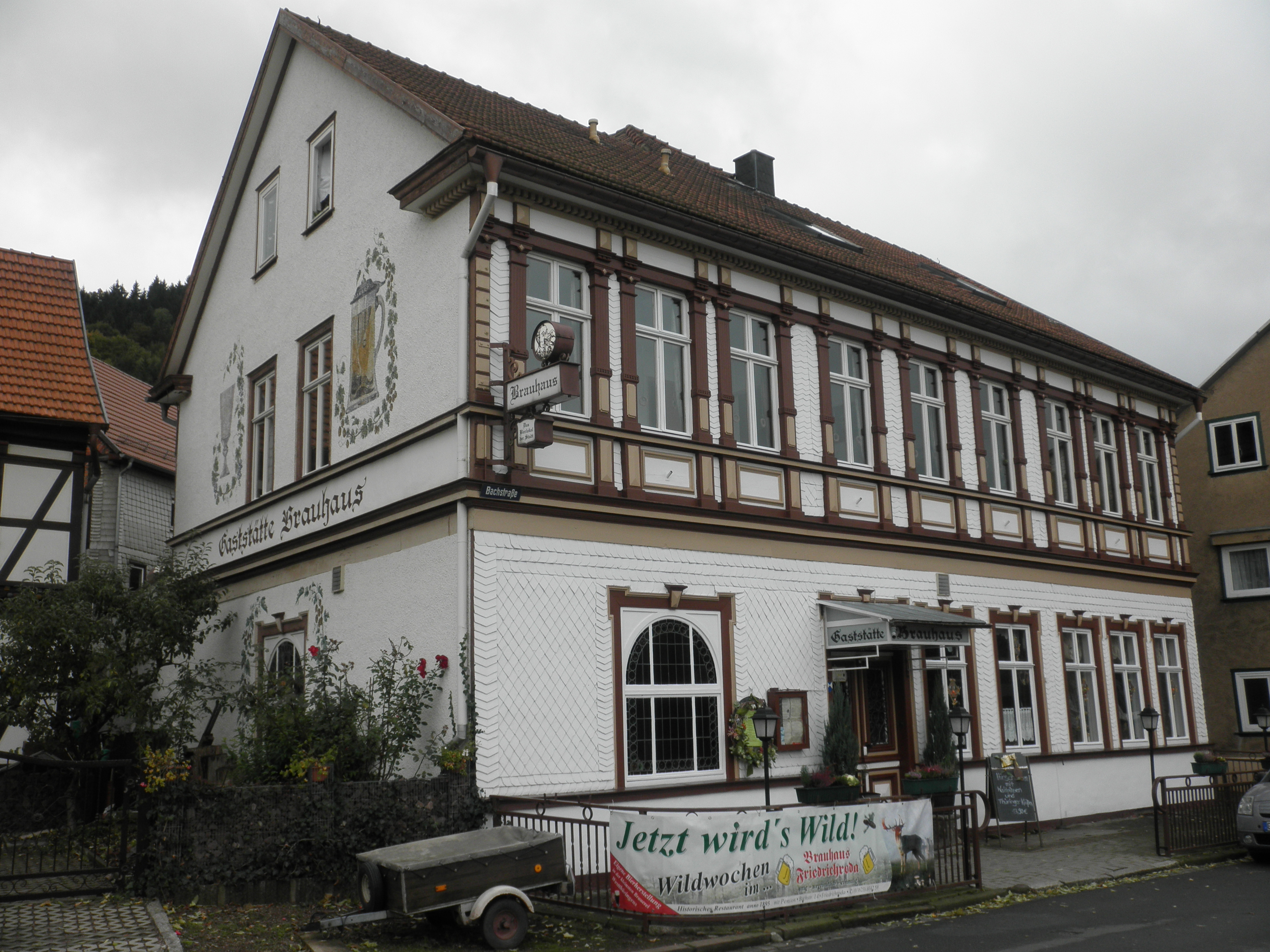 Brauhaus mit Pension in Friedrichroda in Thuringia